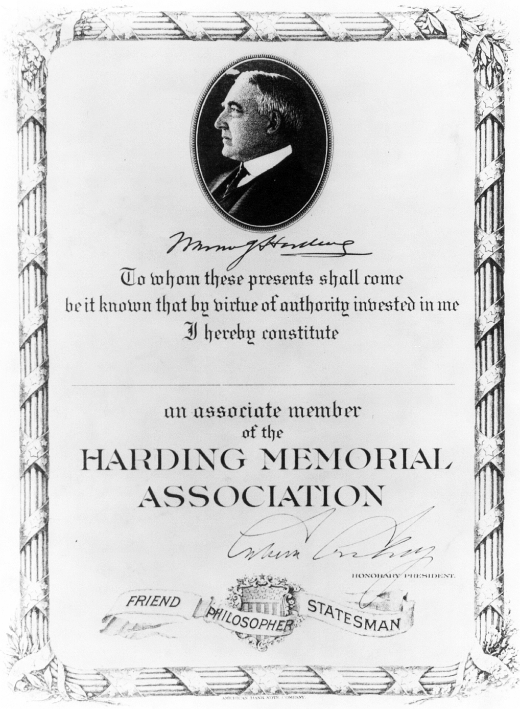 Blank membership certificate in the Harding Memorial Association with photograph and signature of U.S. President Warren G. Harding (1865-1923)